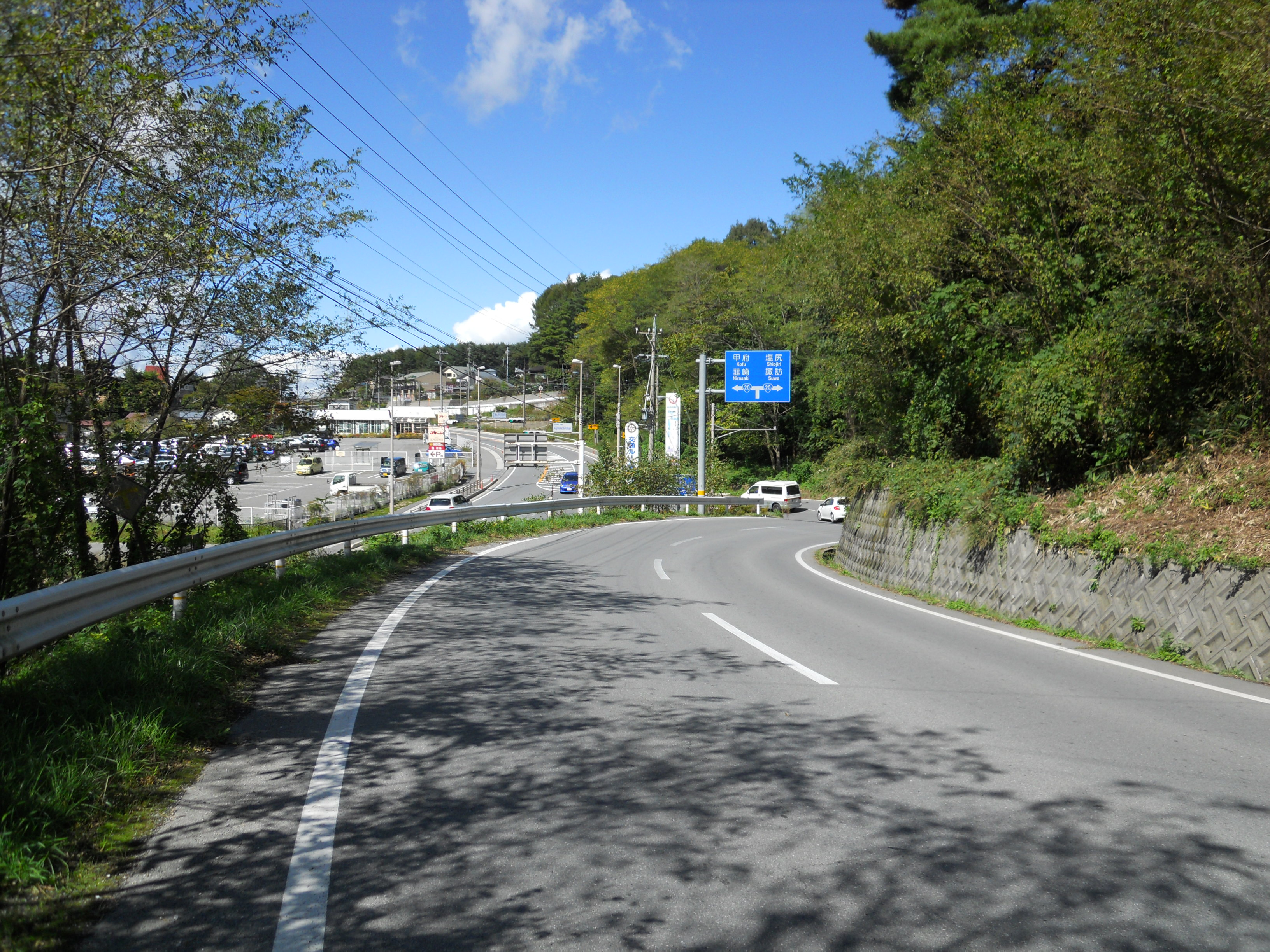 End point of the Nagano Prefectural Road Route 189